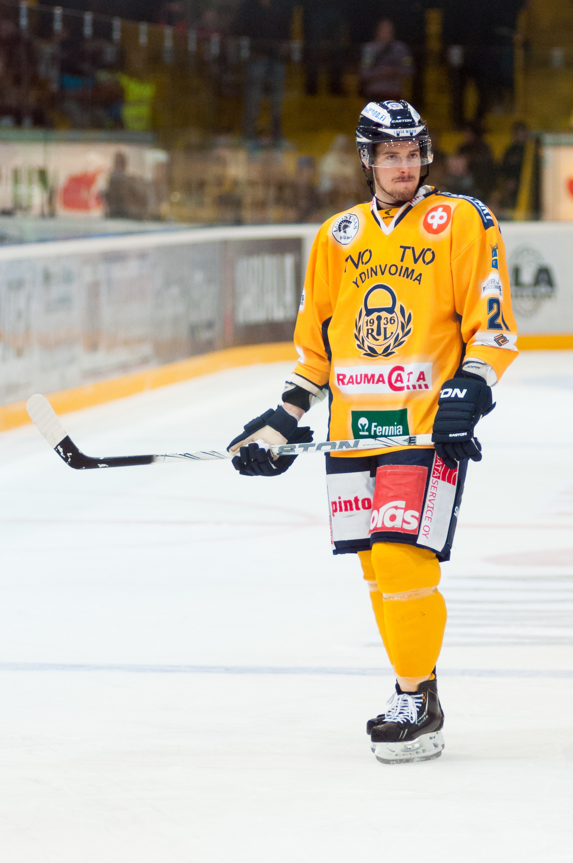 American ice hockey defenseman Matt Generous playing for Rauman Lukko against SaiPa Lappeenranta in Lappeenranta, Finland.